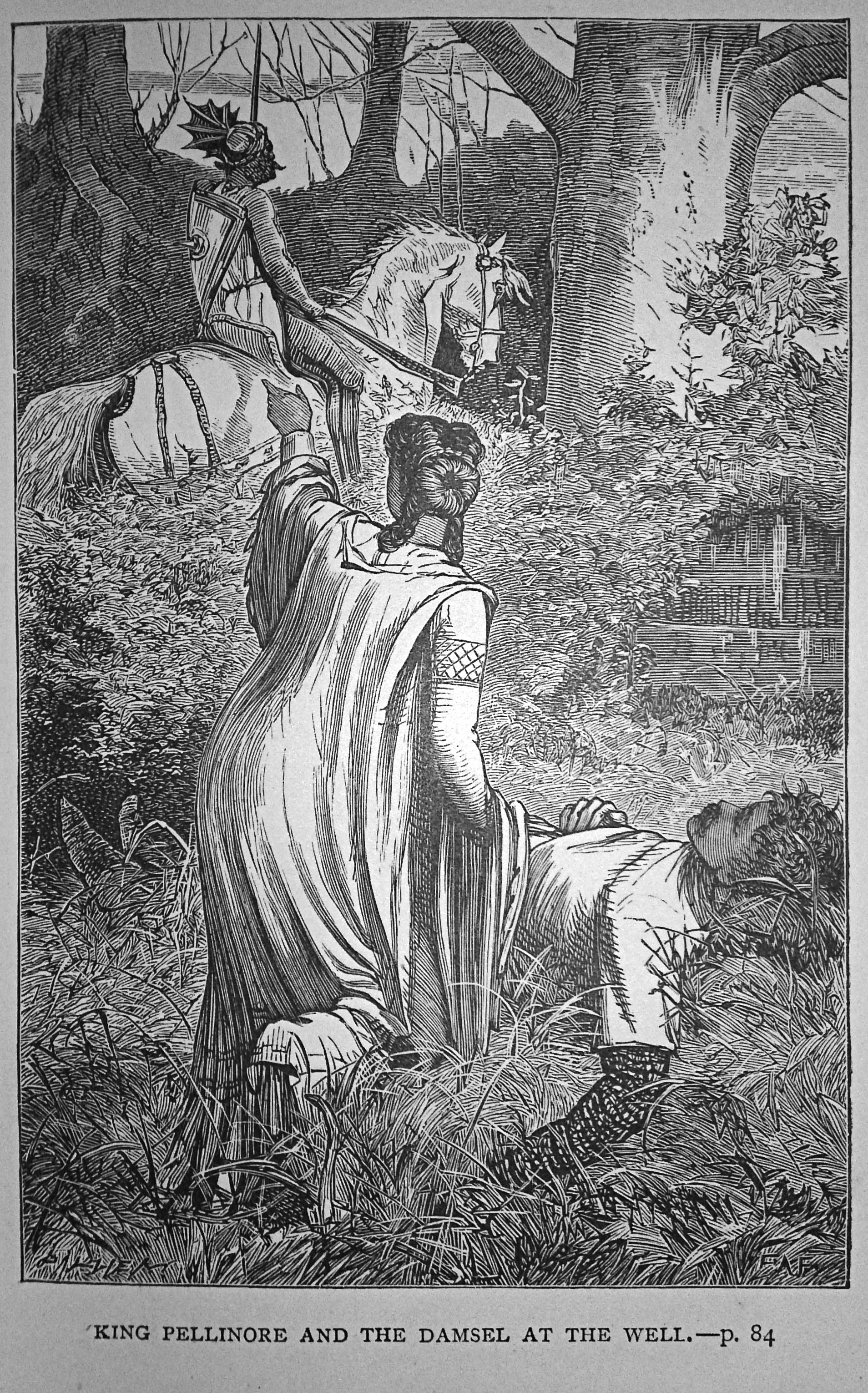 Example of the illustrative work of Francis Arthur Fraser, 1846-1924, from the 1884 publication 'King Arthur & His Knights of the Round Table' (Author: Henry Frith)